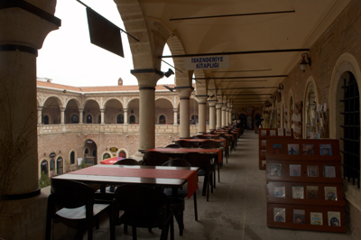 19th century Yeni Han caravanserai built by the Karaosmanoglu family in Manisa, Turkey